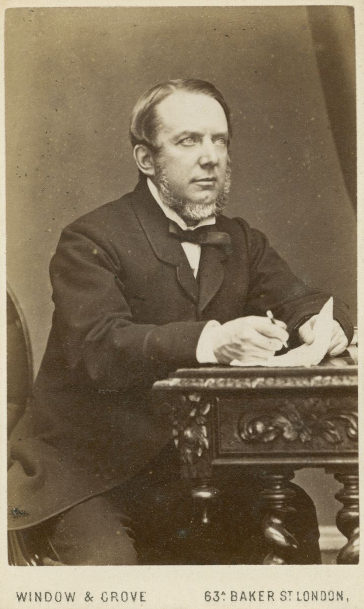 Artist: Window & Grove Date/place: Unknown date/ London Subject: Michael William Balfe Medium: Photographic posetiv Notes: Irish composer. Born in Dublin 15.05. 1808 - dead in Hertfordshire 20.10.1870 Original belongs to the Archives at [#//bergenbibliotek.no/digitale-samlinger” Bergen Public Library]